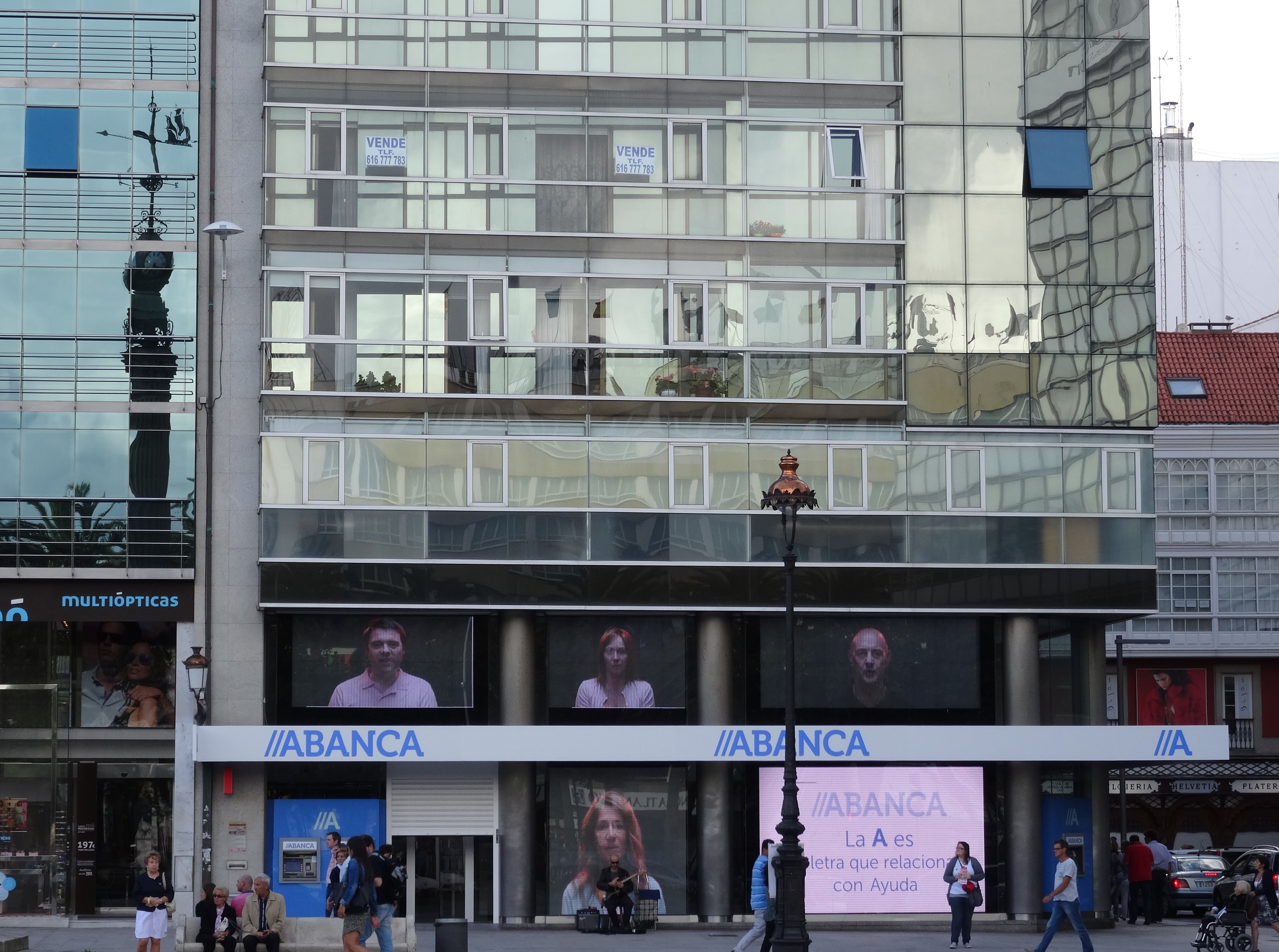 ABANCA's office at Obelisco square in A Coruña, Spain.